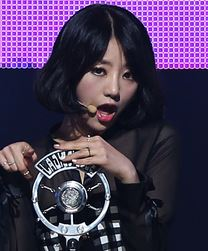 Cropped from File:EunB.jpg